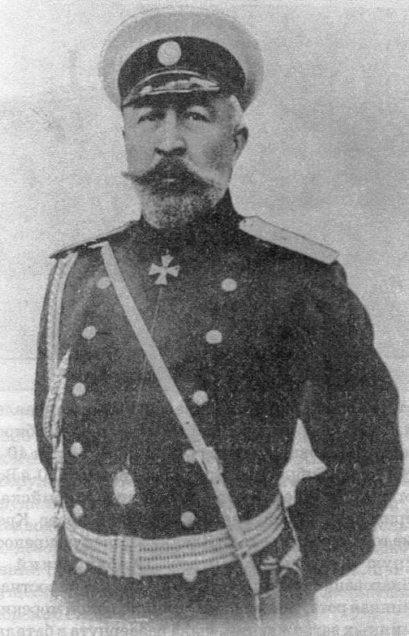 Lt.-Gen. G. N. Kazbek, commandant of the Vladivostok fortress. 1905